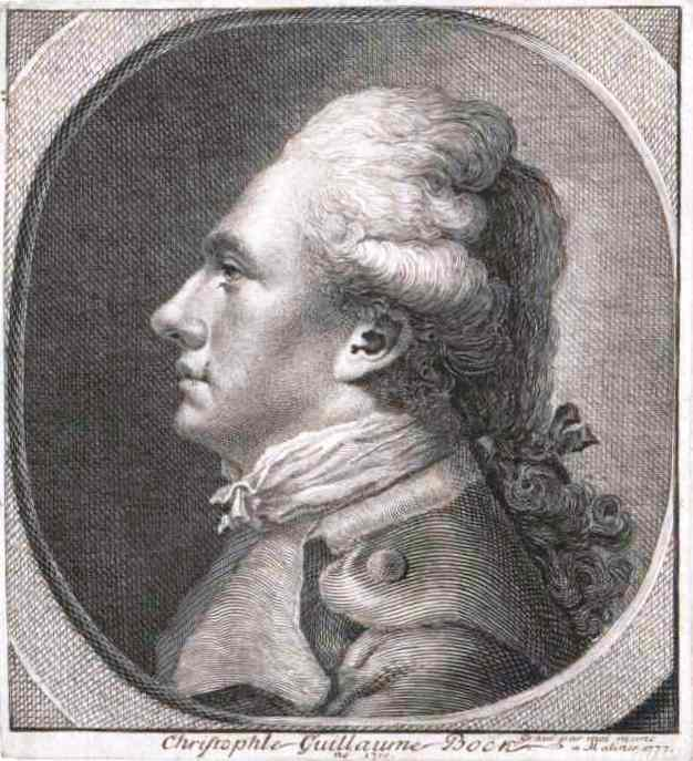 Christoph Wilhelm Bock (1755–1835)